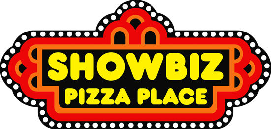 A Logo for ShowBiz Pizza Place.